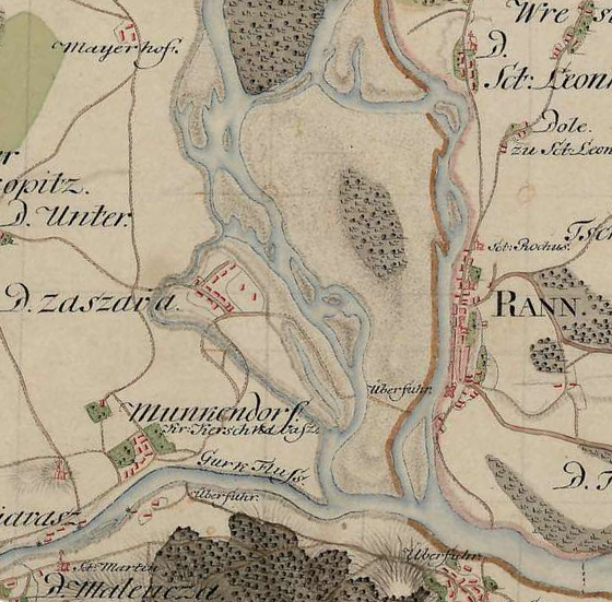 Zasava, former village in Slovenia